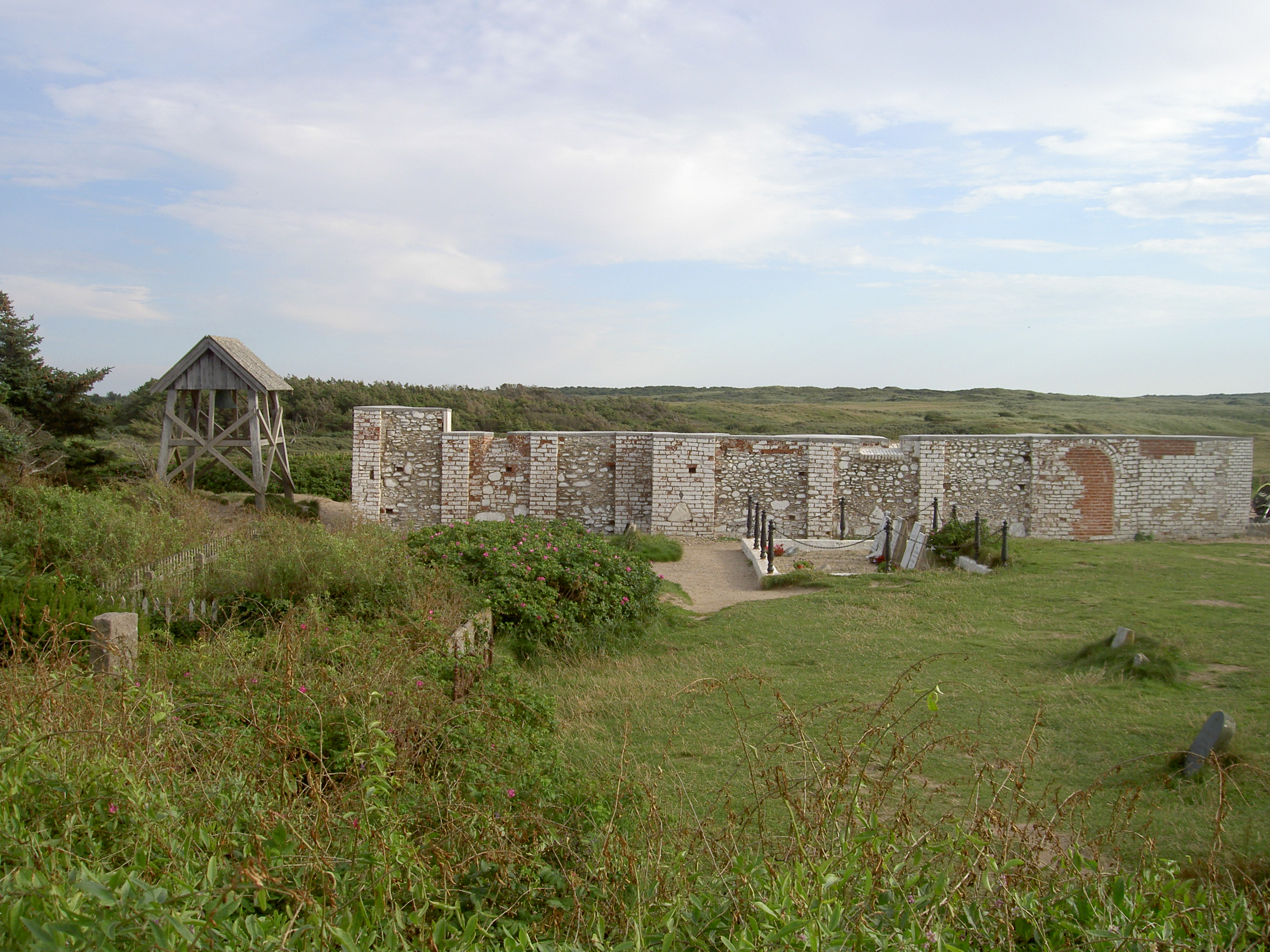 Walls of Mårup Church in Lønstrup, Denmark, after the church was dismantled to prevent its loss into the North Sea. Seen from the north. The graveyard adjacent to the church includes several victims from the British frigate, the Crescent, which sank in December 1808. The Crescent's anchor can be seen behind the wooden bell tower at left.